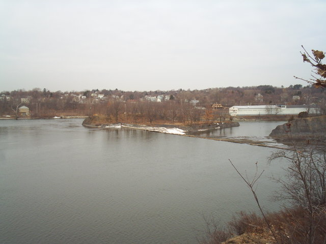 Looking north, Bock Island in the North (Fourth) Branch of the Mohawk River as seen from Peebles Island.